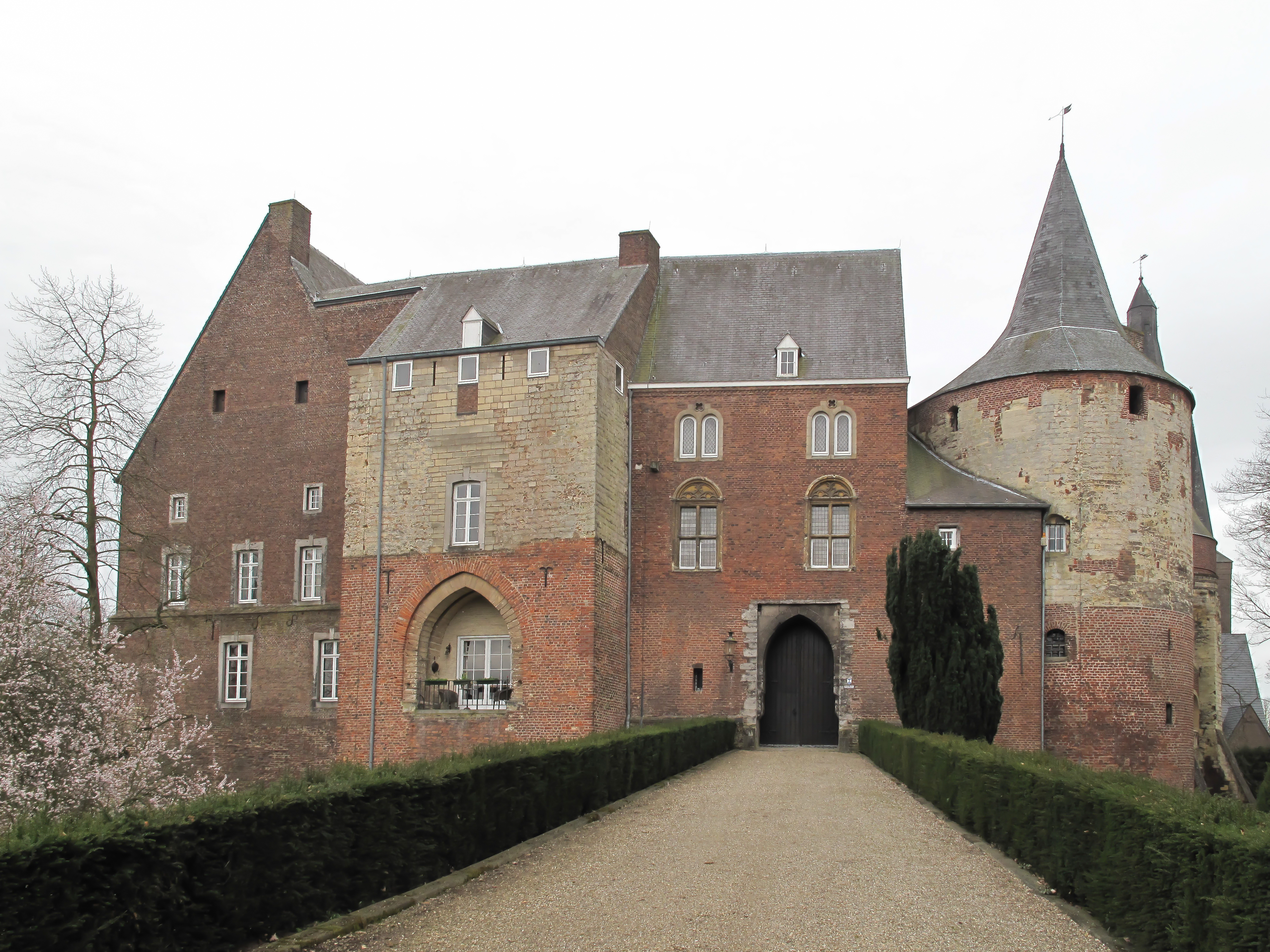 Horn, castle: kasteel Horn